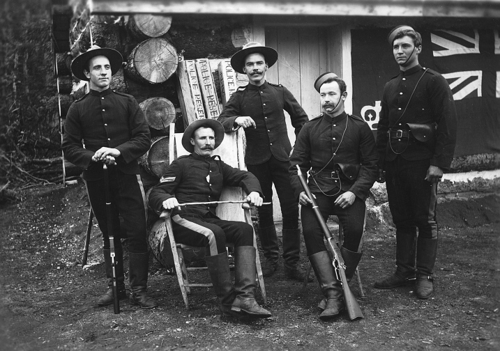 Photograph, North West Mounted Police at Pleasant Camp on the Dalton Trail, about 1898, H. C. Barley, Silver salts on glass - Gelatin dry plate process, 12 x 17 cm